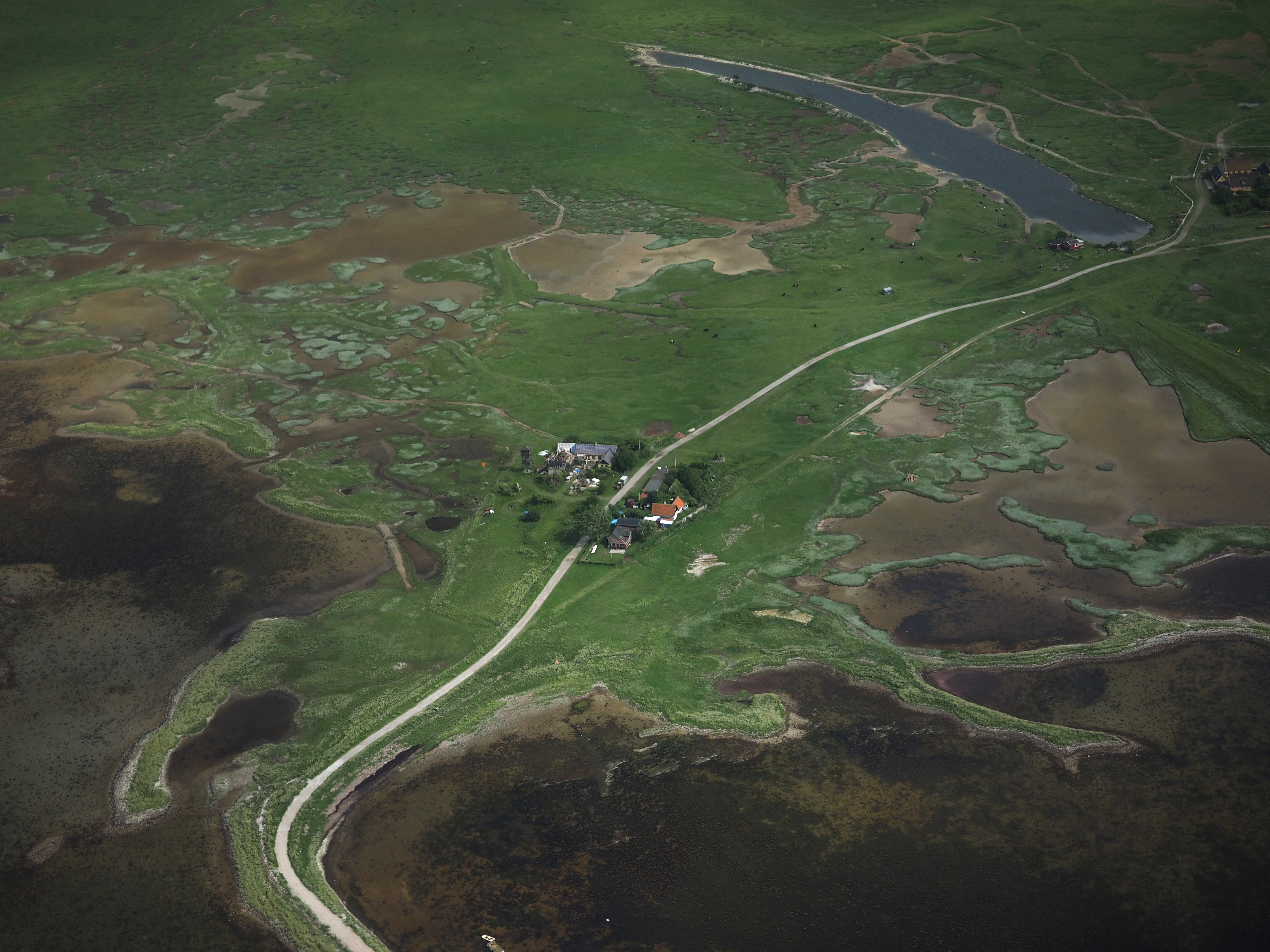 Aerial view of Saltholm, July 2016.